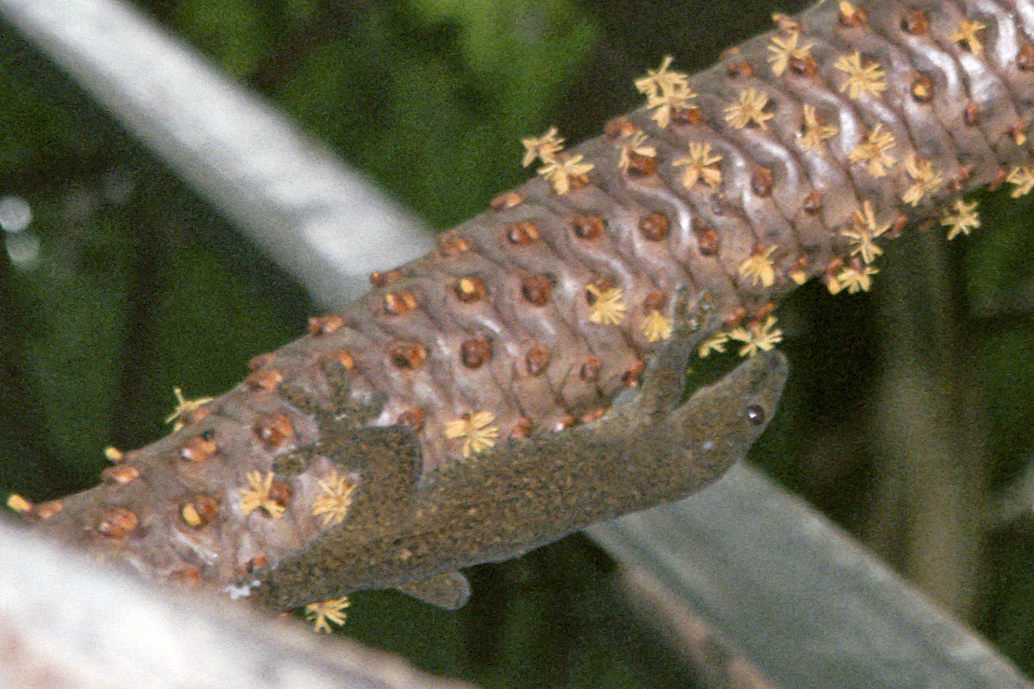 Ailuronyx seychellensis, Vallée de Mai, Island of Praslin, in the Seychelles